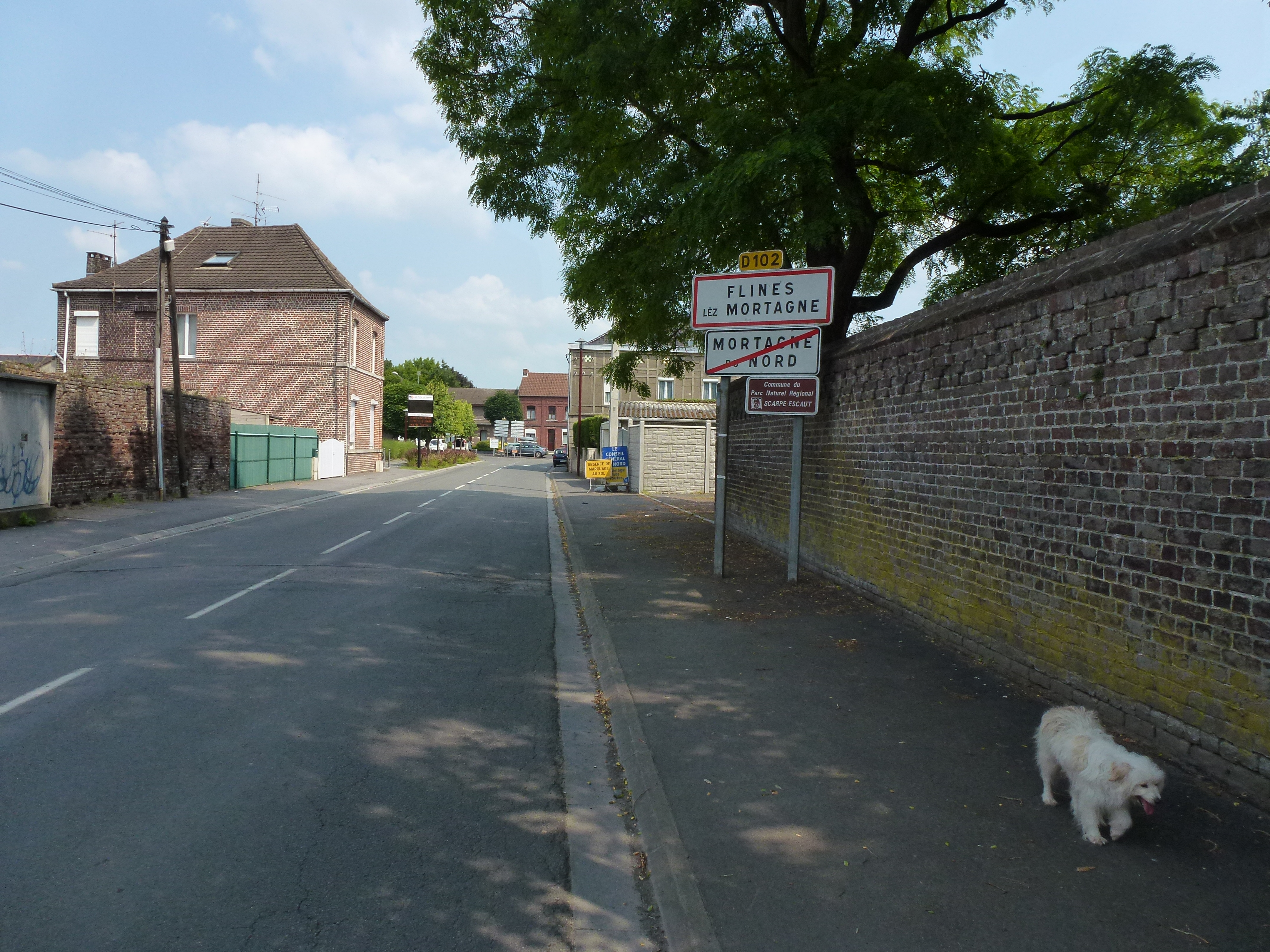 Flines-lès-Mortagne (Nord, Fr) city limit sign